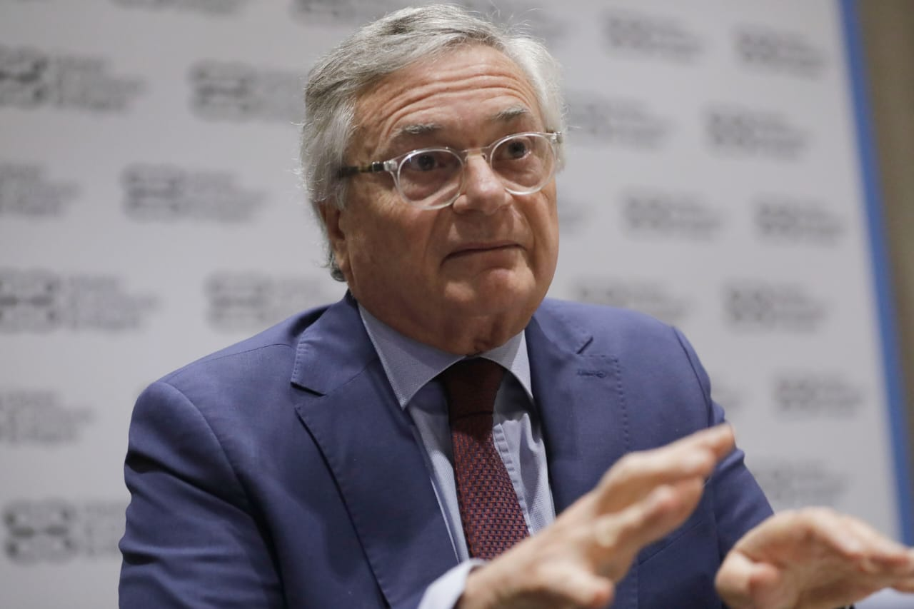 Moisés at a conference in Latin America, cir. 2019.